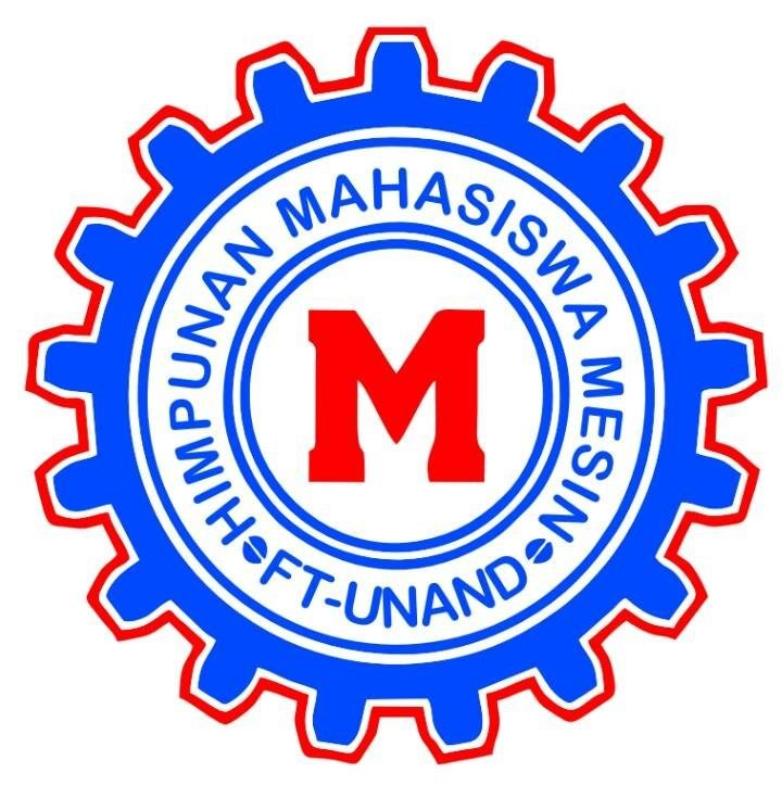 Logo Himpunan Mahasiswa Mesin Fakultas Teknik Universitas Andalas